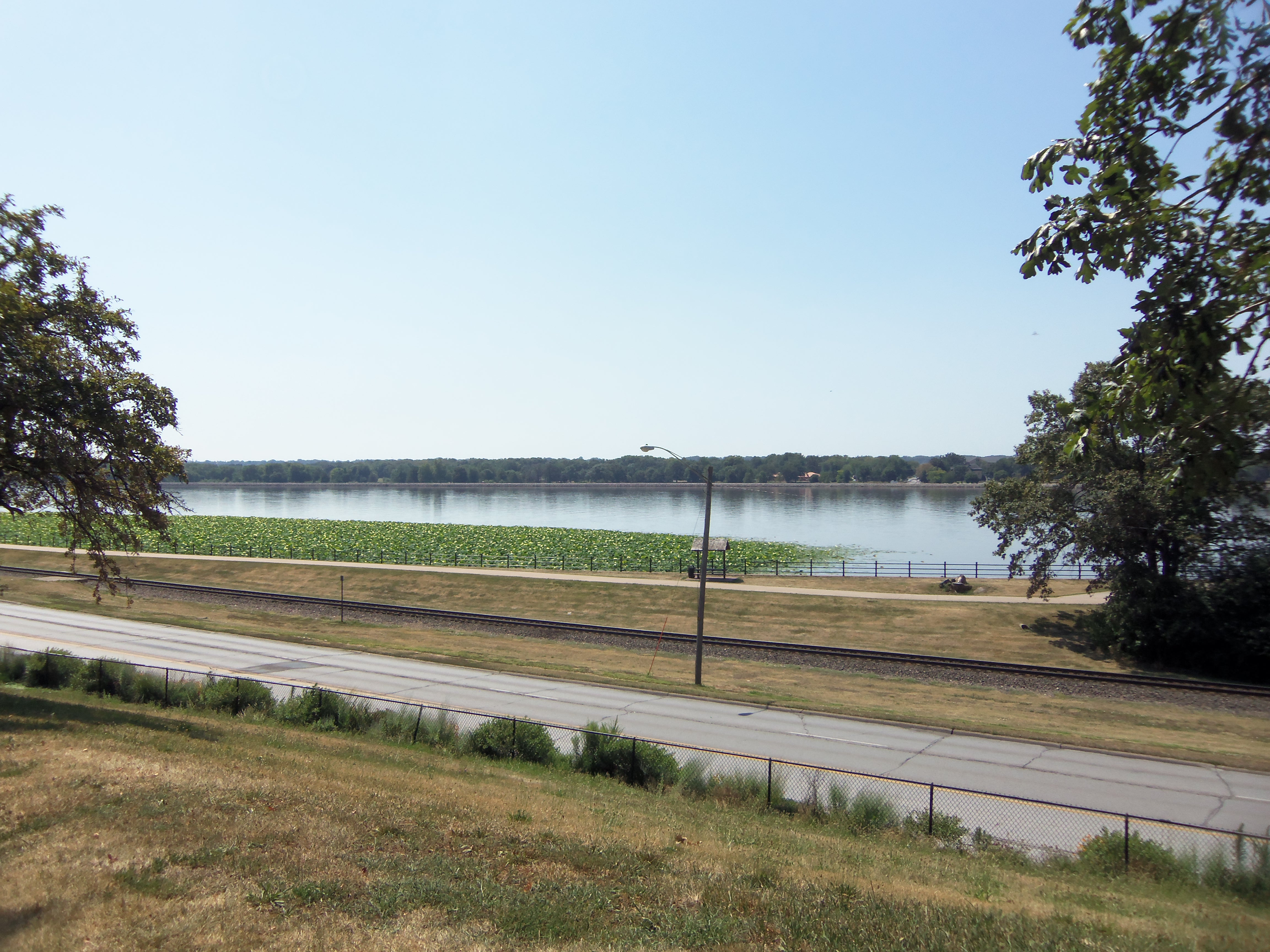 Riverfront Parkway along the Mississippi River in Davenport, Iowa. The Rock Island Arsenal is on the opposite shore.